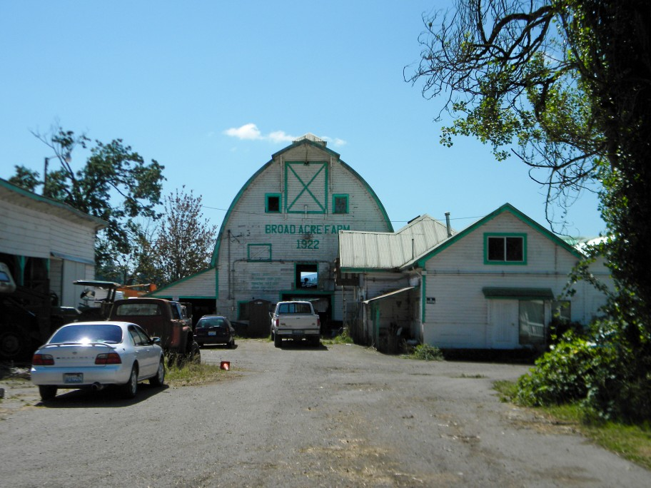 William and Estella Adair Farm Site is in somewhat dilapidated condition but near larger, showier properties in same area.